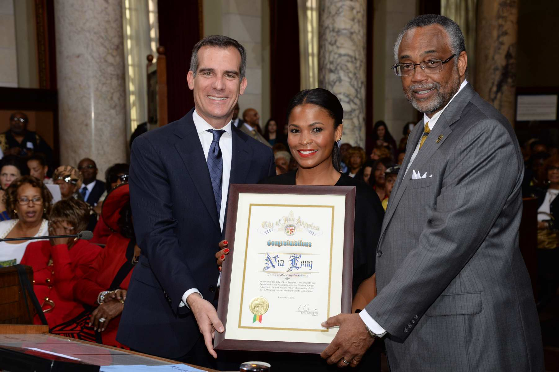 Mayor Eric Garcetti and Los Angeles City Councilmembers celebrate African American History Heritage Month. Kareem Abdul-Jabbar is presented with the Lifetime Achievement Award; Nia Long with the Dream of Los Angeles Award; Vanessa Bell Calloway with the Spirit of Los Angeles Award. John Legend with the Hope of Los Angeles Award. Judge Mablean Ephriam, Dr. George KcKenna III, and former Los Angeles Councilmember Rita Walters and Dr. Edward Savage, Jr. received Hall of Fame Awards for law, education, government and Health.